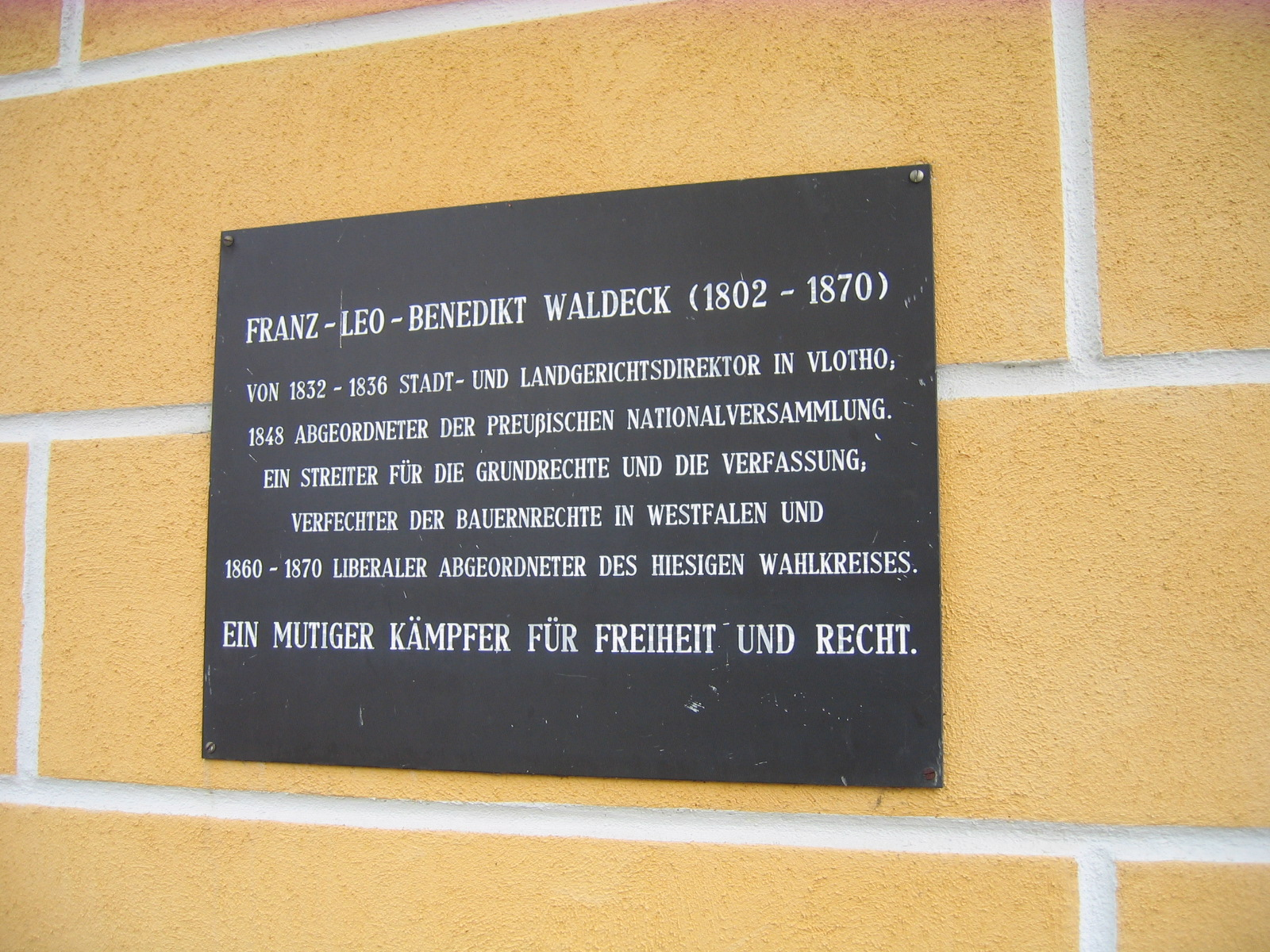 in Vlotho, District of Herford, North Rhine-Westphalia, Germany.